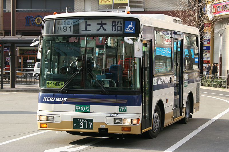 Keio Bus Minami's route bus (Car No.M79712 / Nissan Diesel RN KC-RN210CSN /FHI 8E body) at Hachioji Station North Exit, Hachioji, Tokyo, Japan.